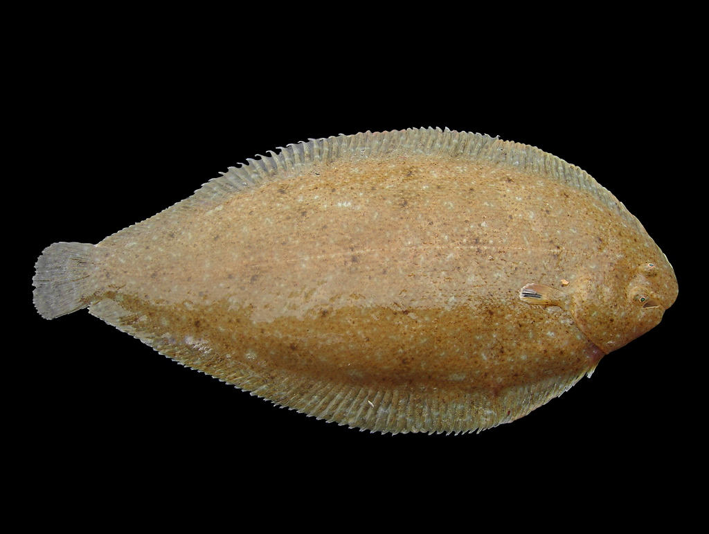 Sand Sole on board of RV Belgica from the southern North Sea.Lab image.